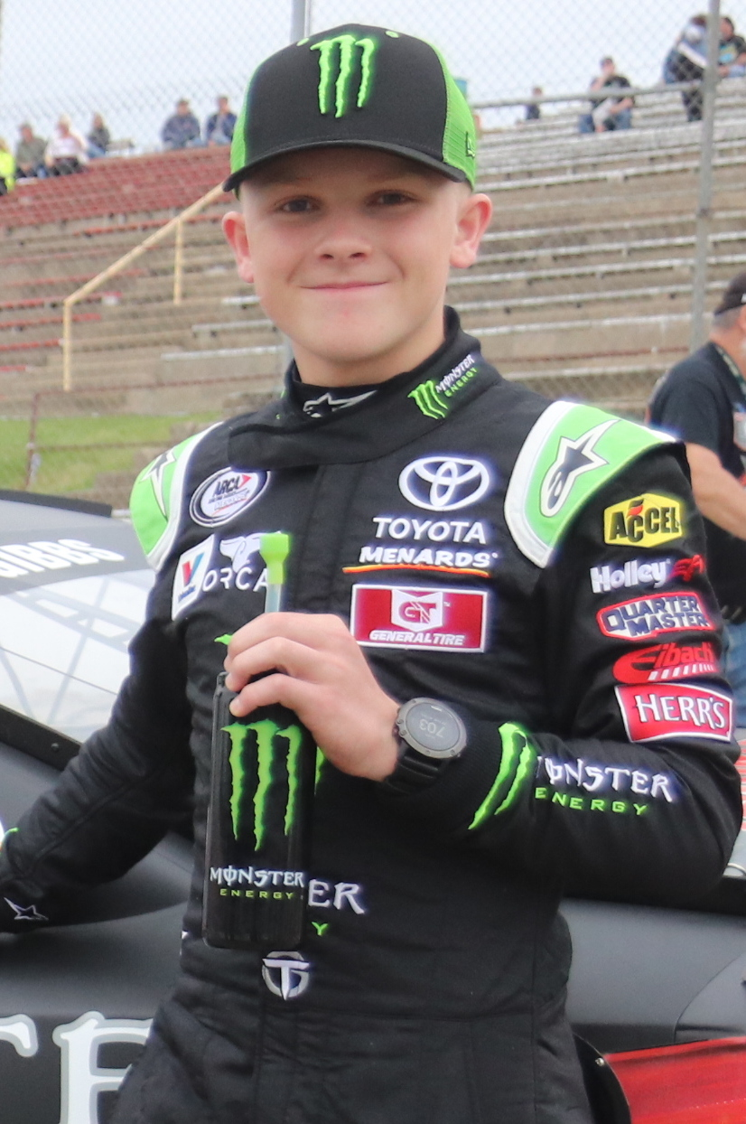 ARCA driver Ty Gibbs posing at Madison